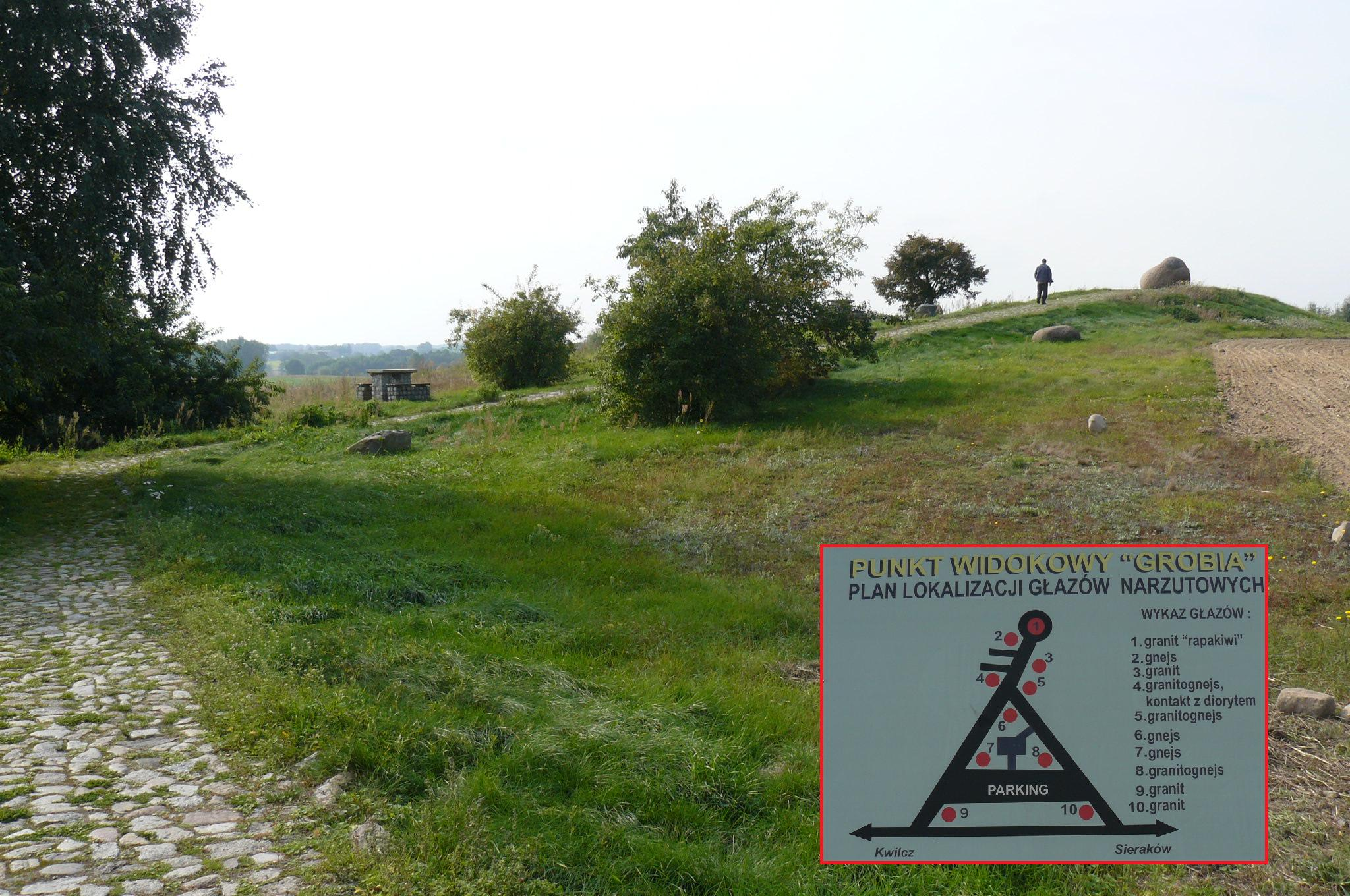 Eratic hill - Grobia, PL.